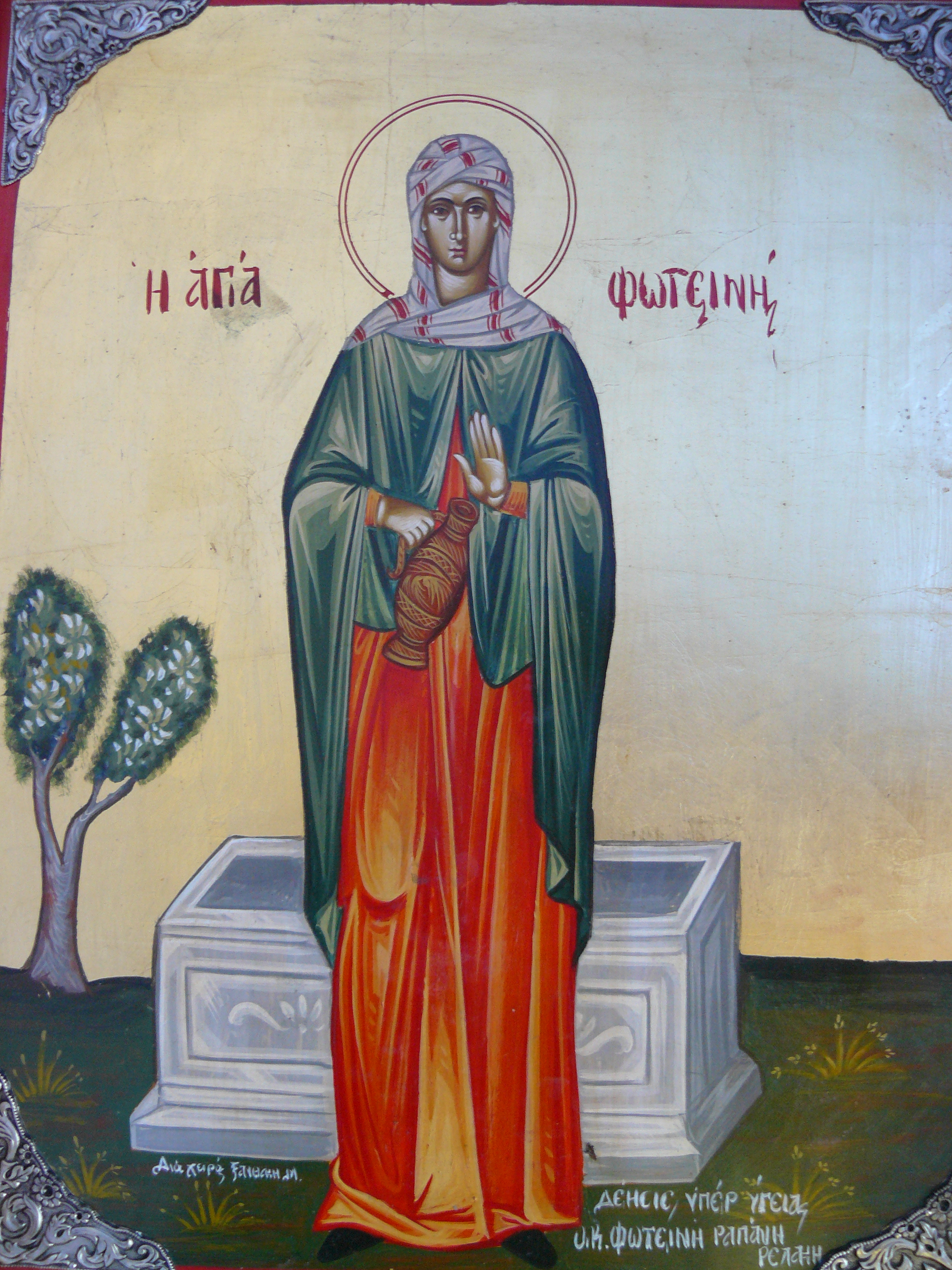 Icon of Saint Photini. The Samaritan woman in front of the Jacob's well near Sychar. Agia Fotini Church in Pachia Ammos, Lasithi, Crete.